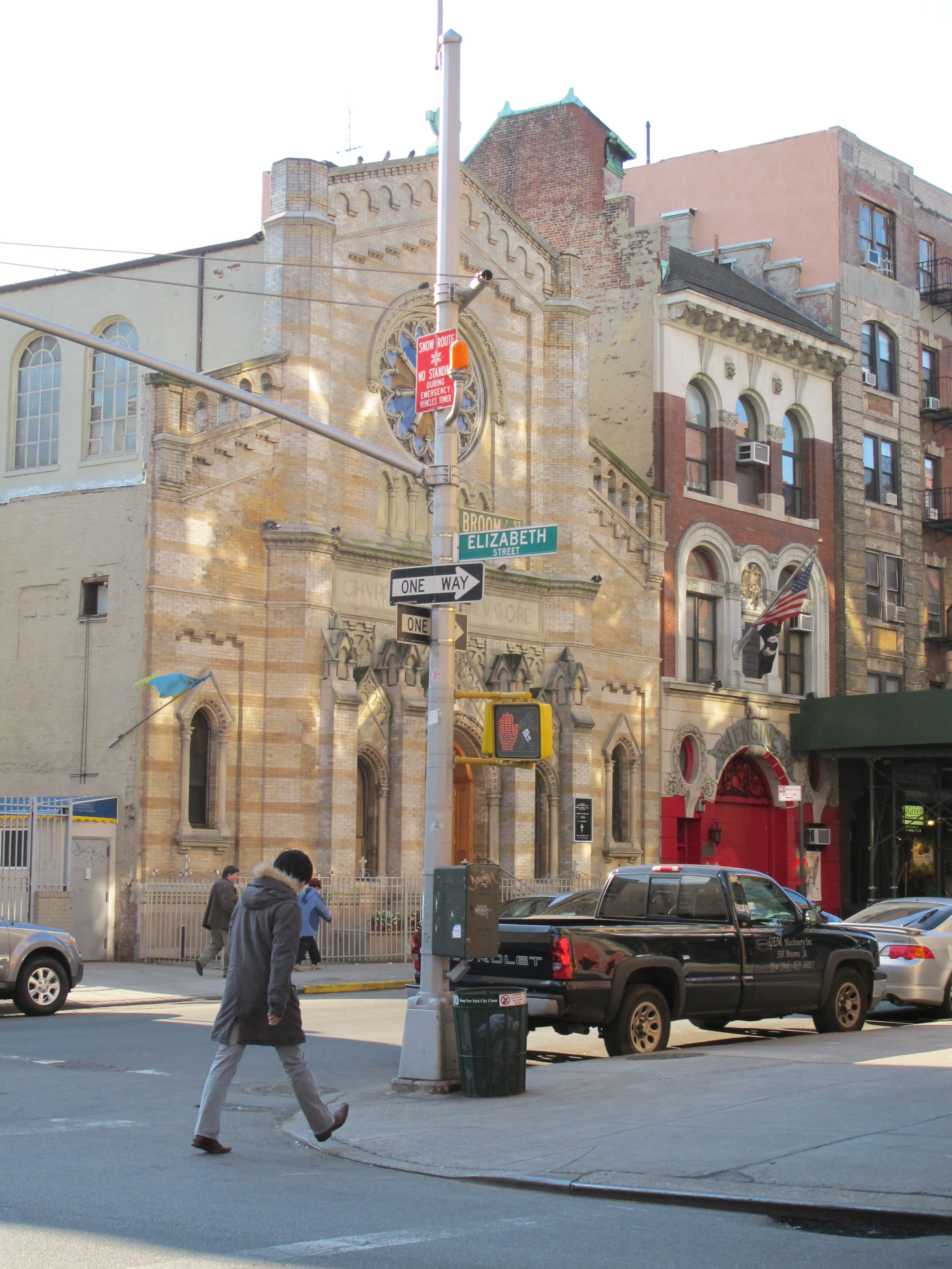 Looking southwest at Holy Trinity Ukrainian Orthodox Church - 359 Broome Street, Manhattan, New York City